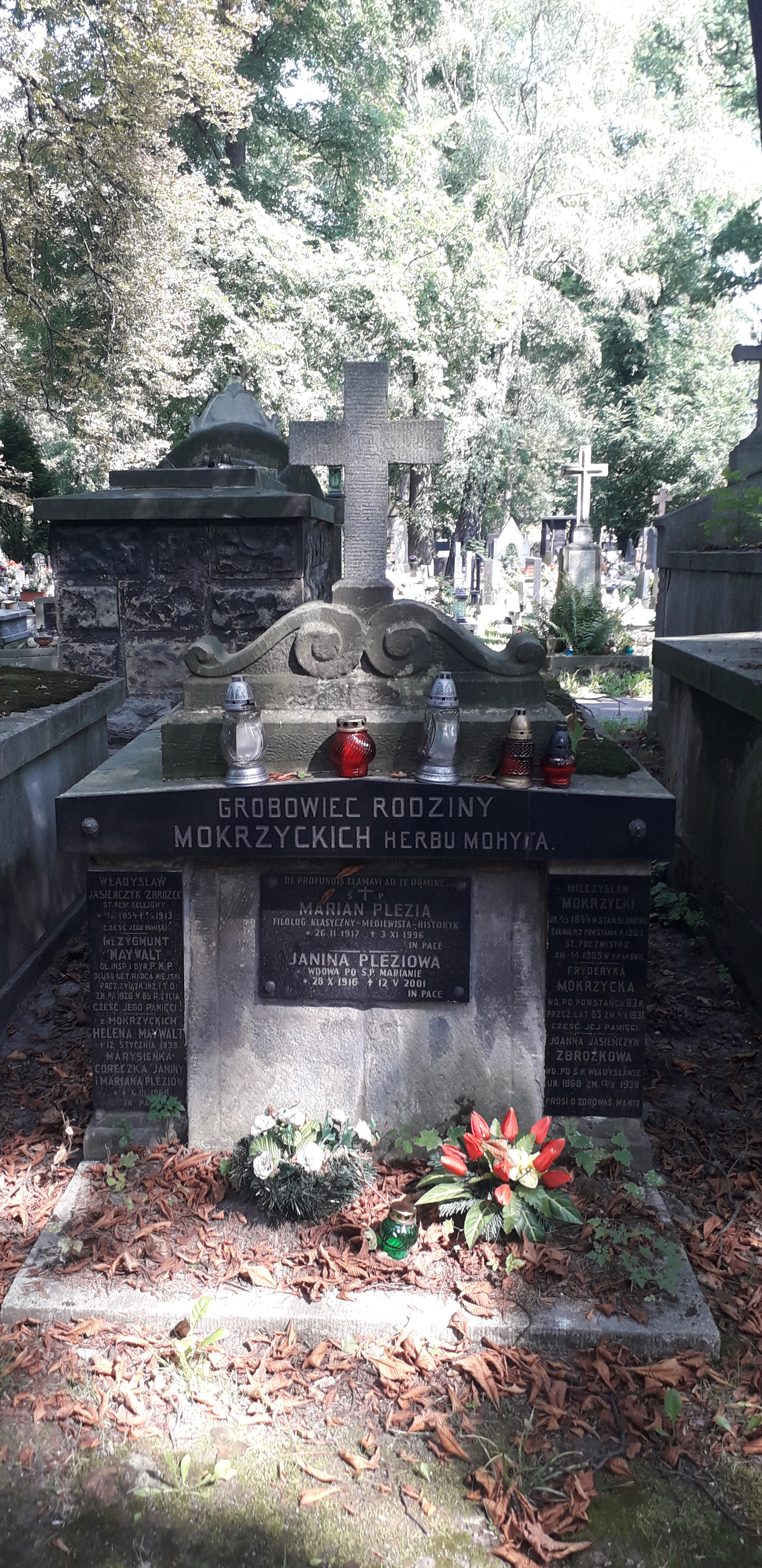 Parian Plezia grave